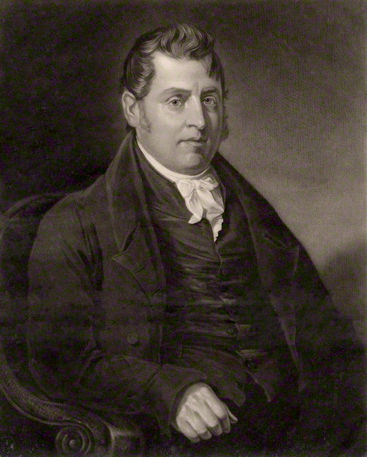 Portrait of Jonathan Peel